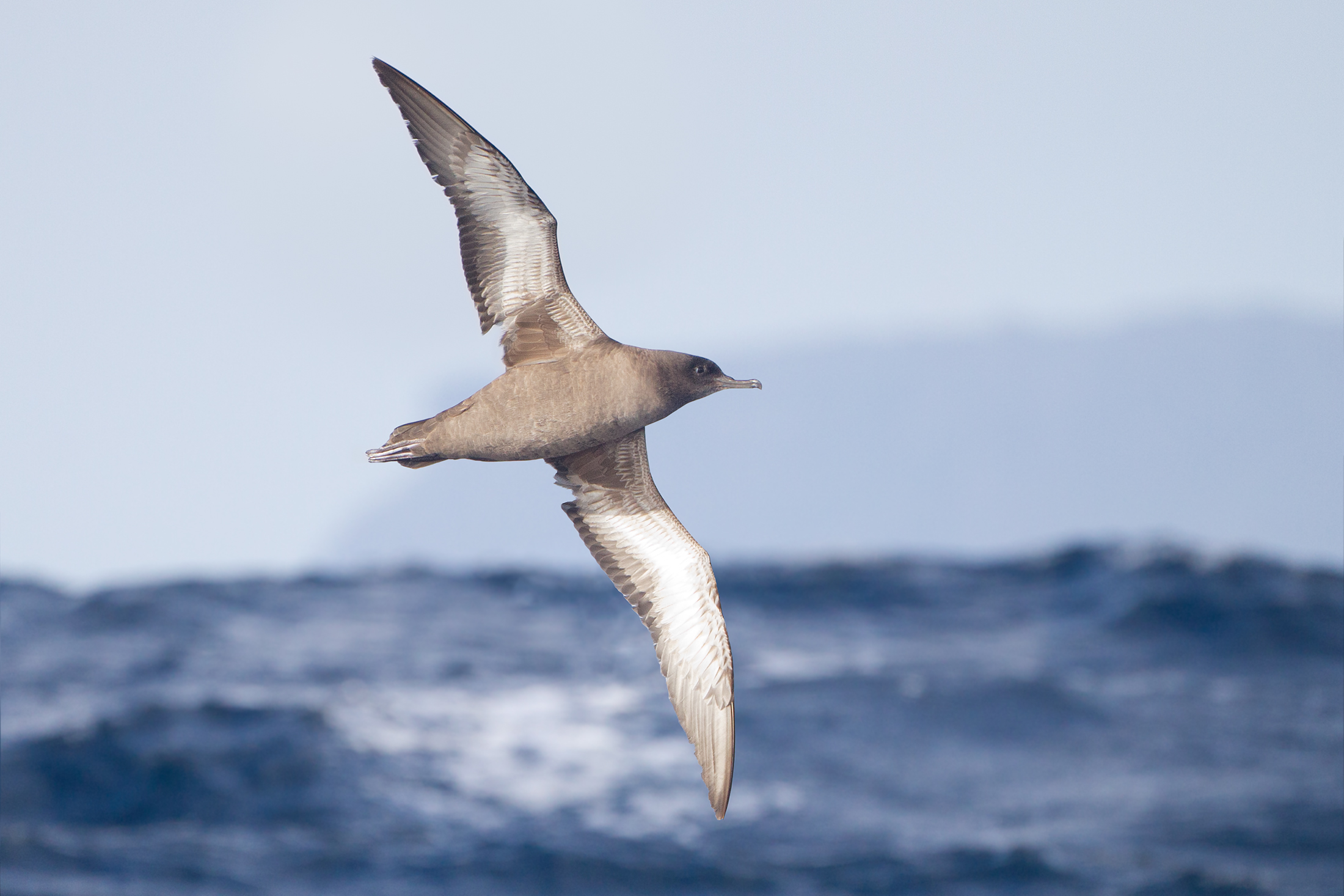 Sooty Shearwater (Puffinus griseus) in flight with Cape Pillar behind, East of the Tasman Peninsula, Tasmania, Australia